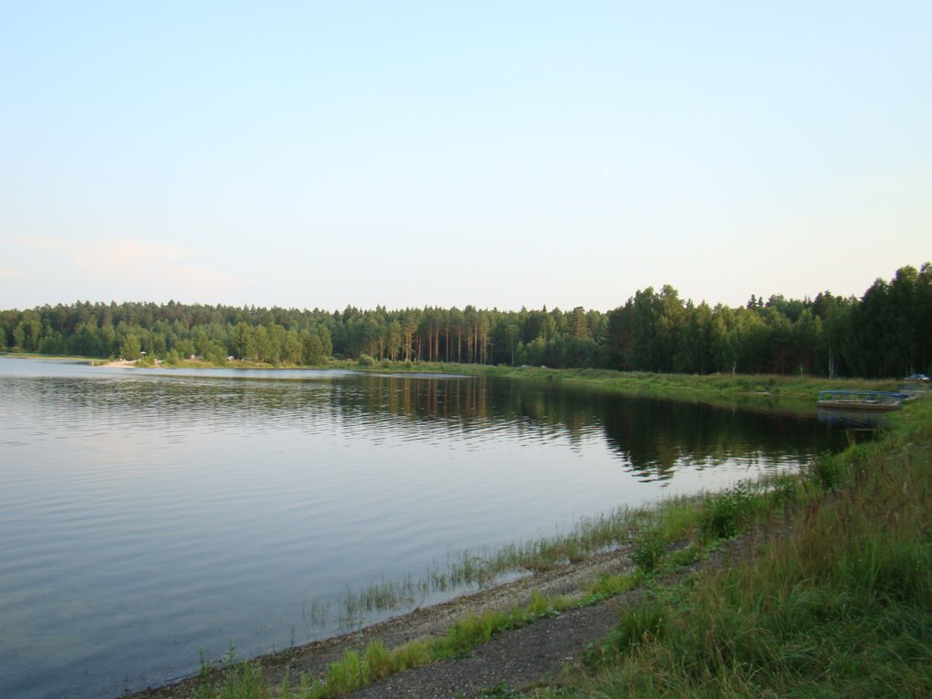 Ozero Protnyashnoye, Mordovsky Nature Reserve, Temnikovsky District, Mordovia, Russia